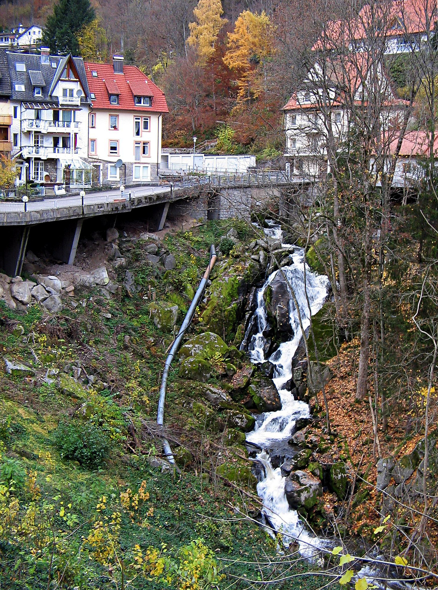 Schonach Waterfall near the centre of Triberg, Black Forest, Germany